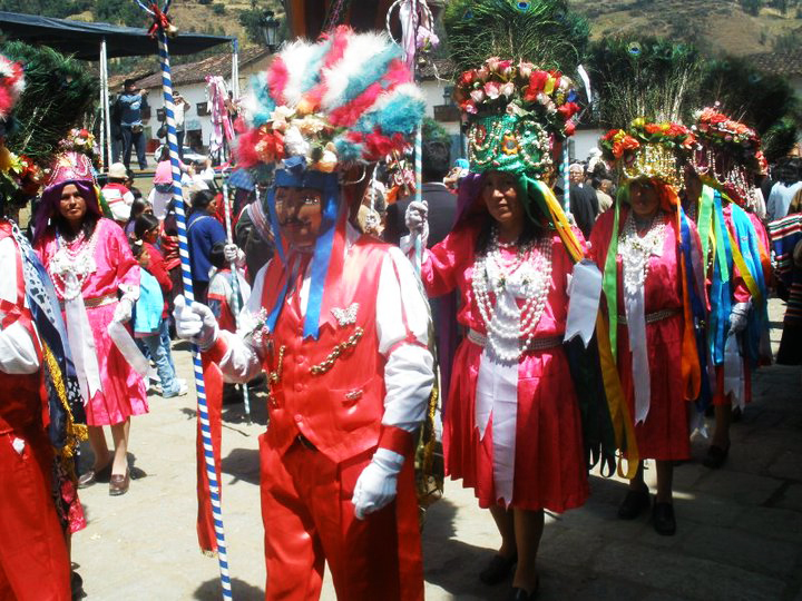 Anti Runas, Dance Chacas typical.